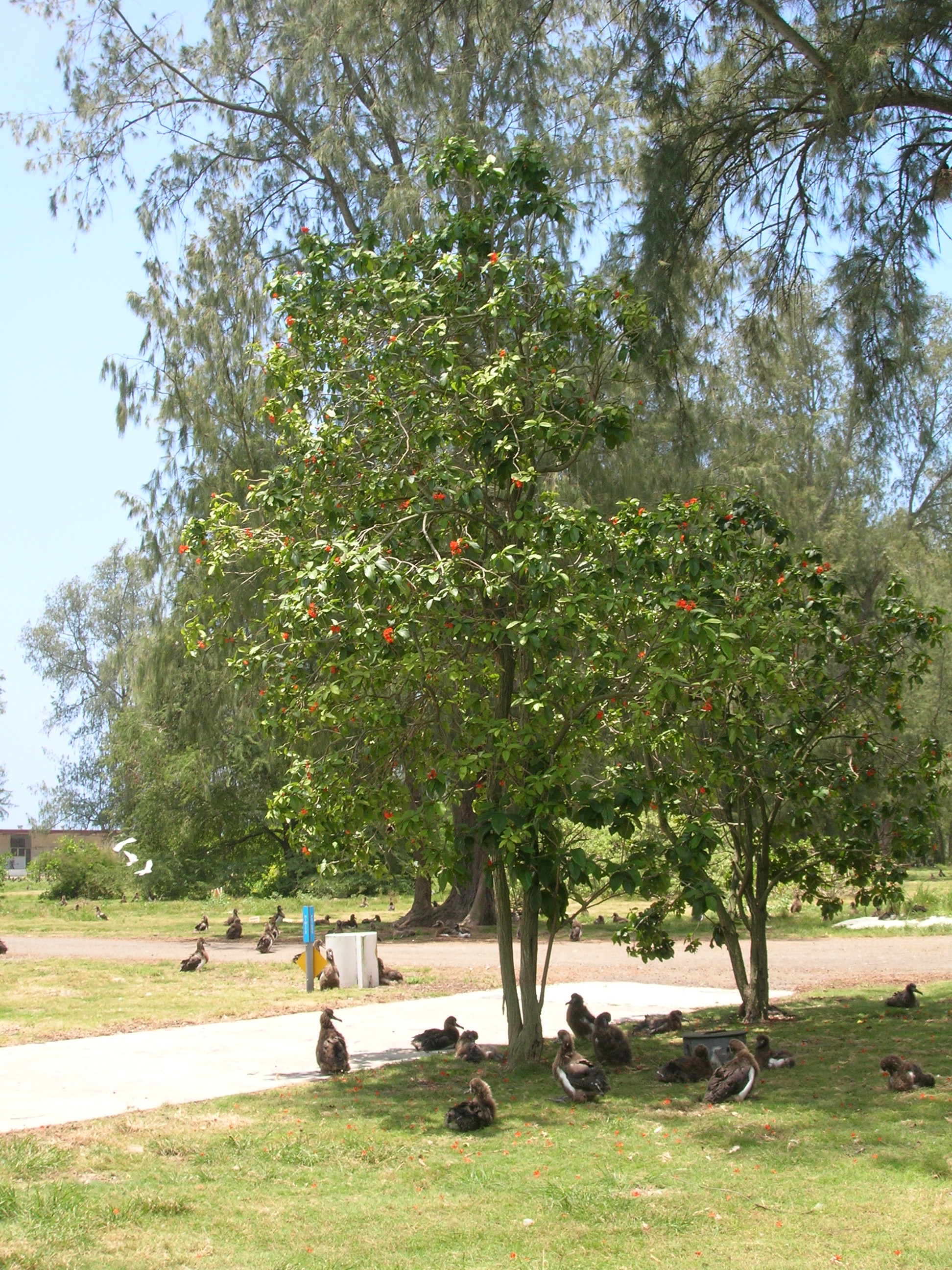 Cordia sebestena (habit). Location: Midway Atoll, Midway Mall Sand Island